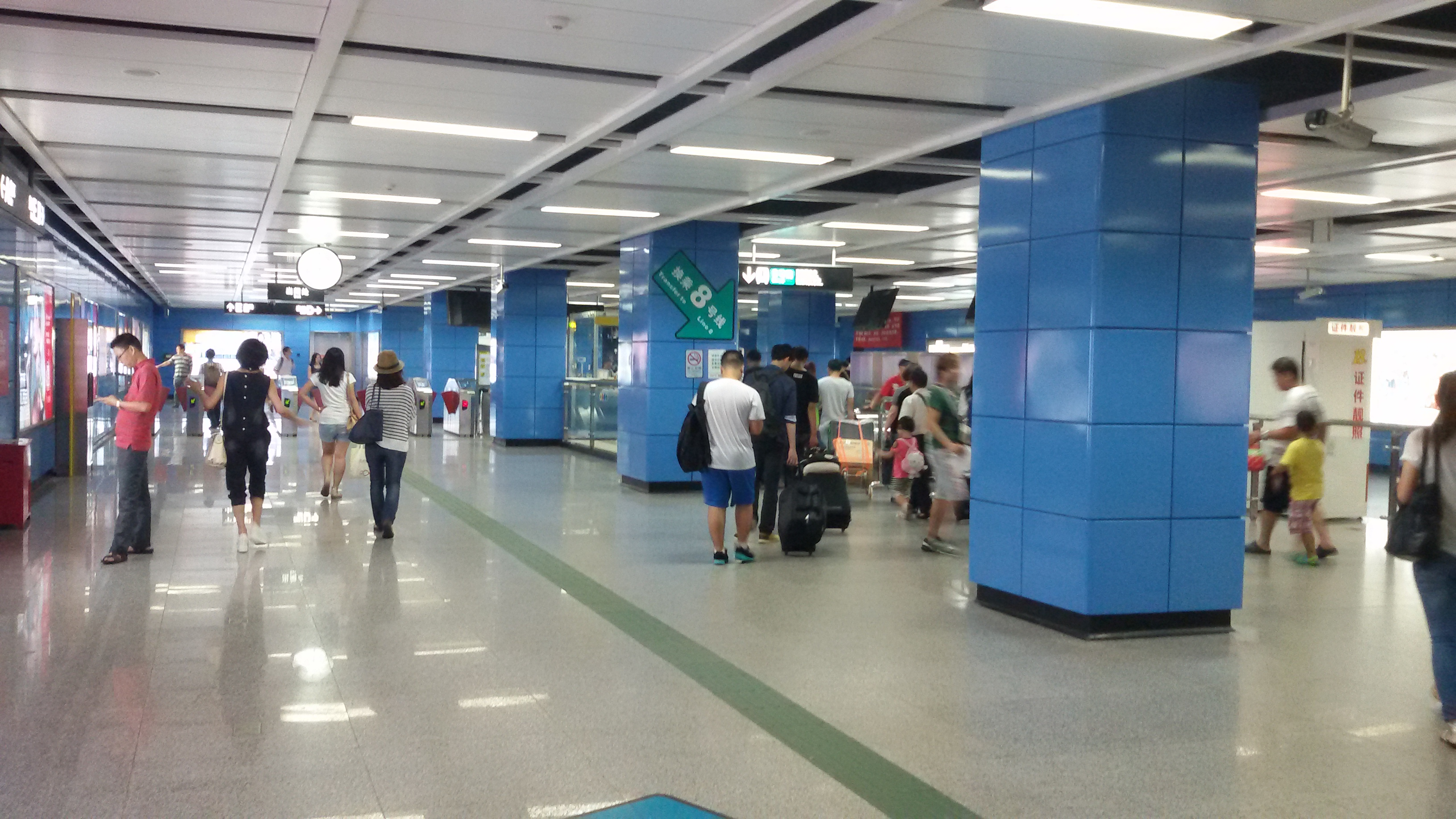 Concourse for Changgang Station in Line 8, Guangzhou Metro 粵語: 昌崗站嘅8號綫站廳